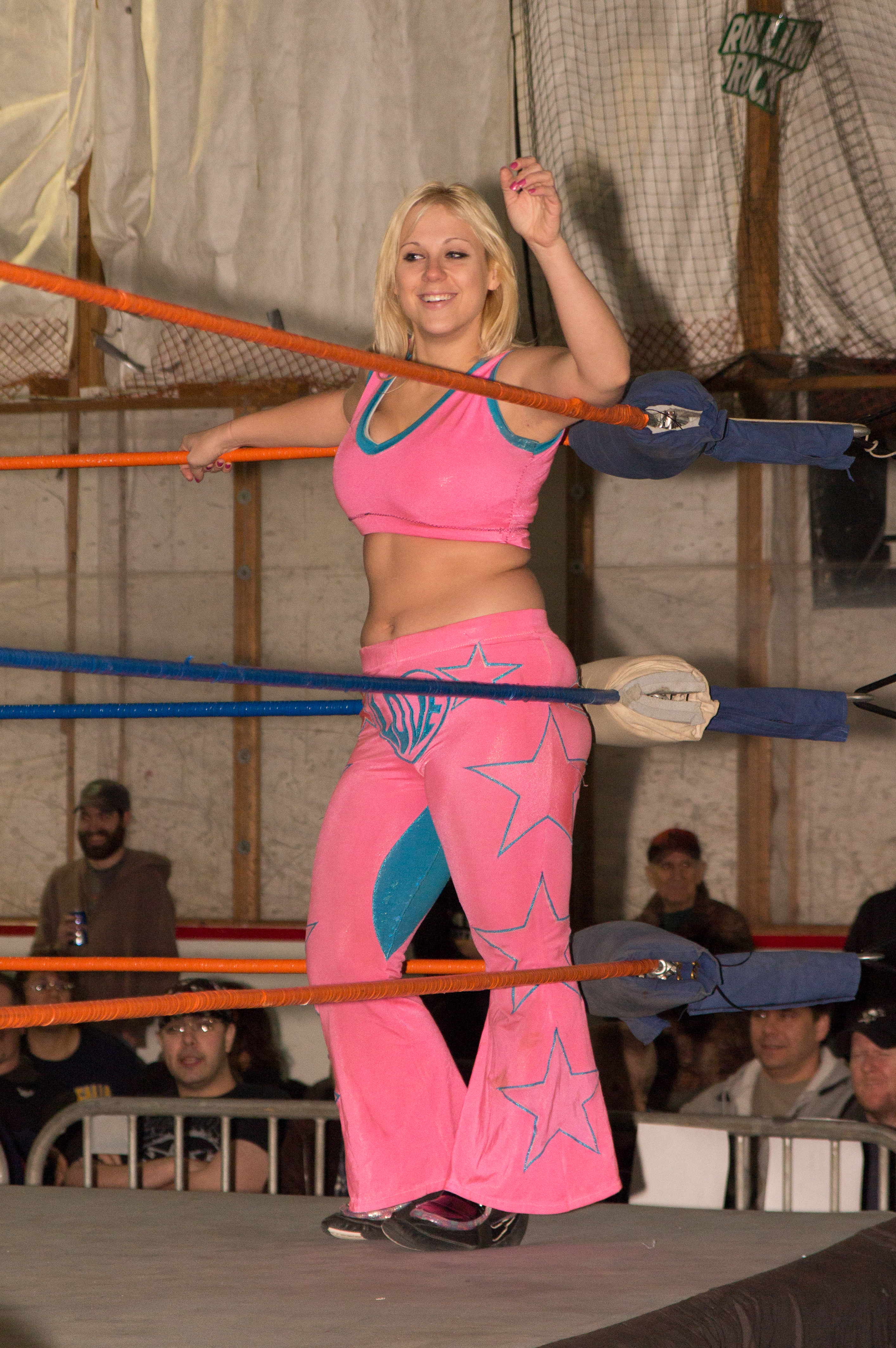 Rachel Summerlyn at a 2CW show in February 2013